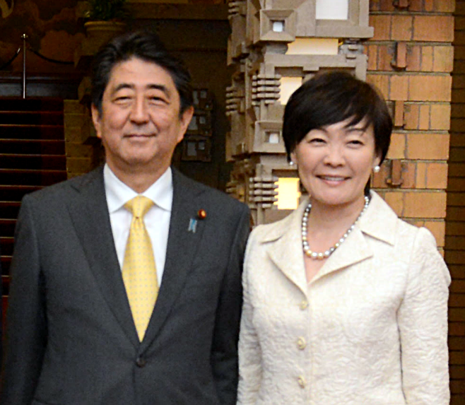 Mauricio Macri, President, and Juliana Awada, spouse of Mauricio, met Shinzō Abe, Prime Minister, and Akie Abe, spouse of Shinzō, at the Prime Minister's Official Residence in Chiyoda Ward, Tōkyō Metropolis on May 19, 2017.